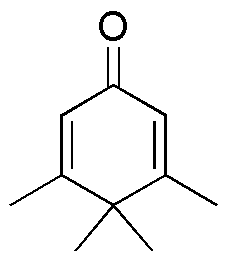 Chemical structure of penguinone or 3,4,4,5-tetramethylcyclohexa-2,5-dienone.